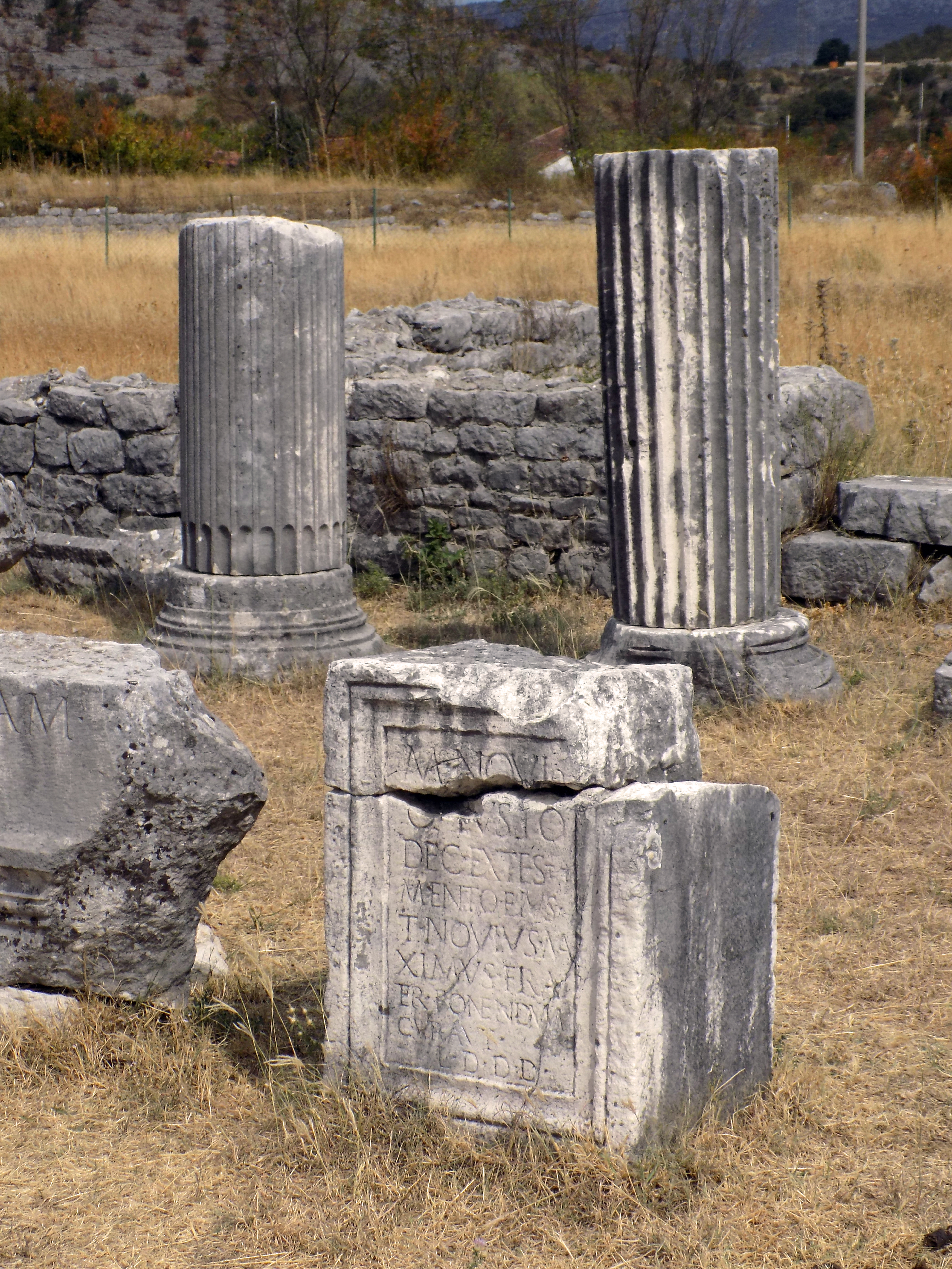 Ruins of the ancient city of Doclea, archaeological site Duklja near Podgorica, Montenegro